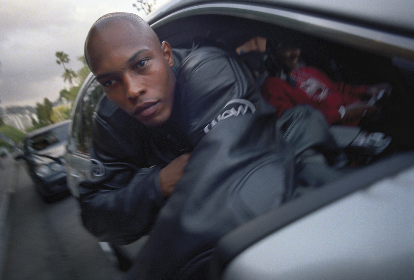 NYC 2002